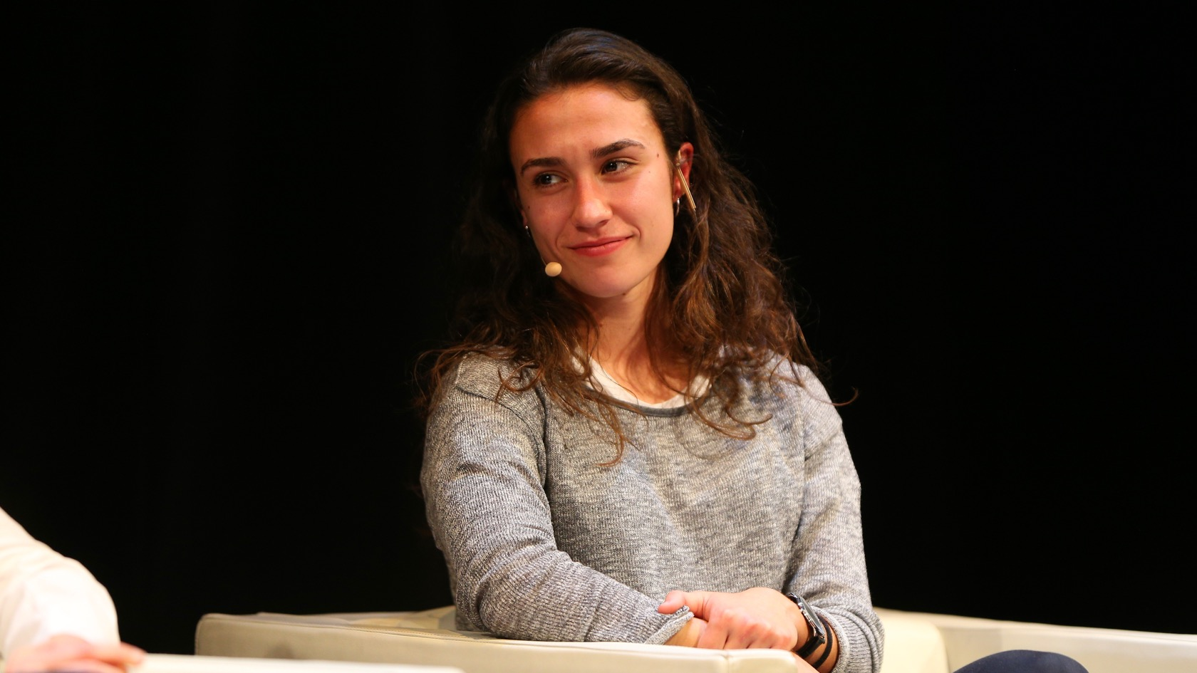 Nahikari García during a discussion on women's football in 2019.